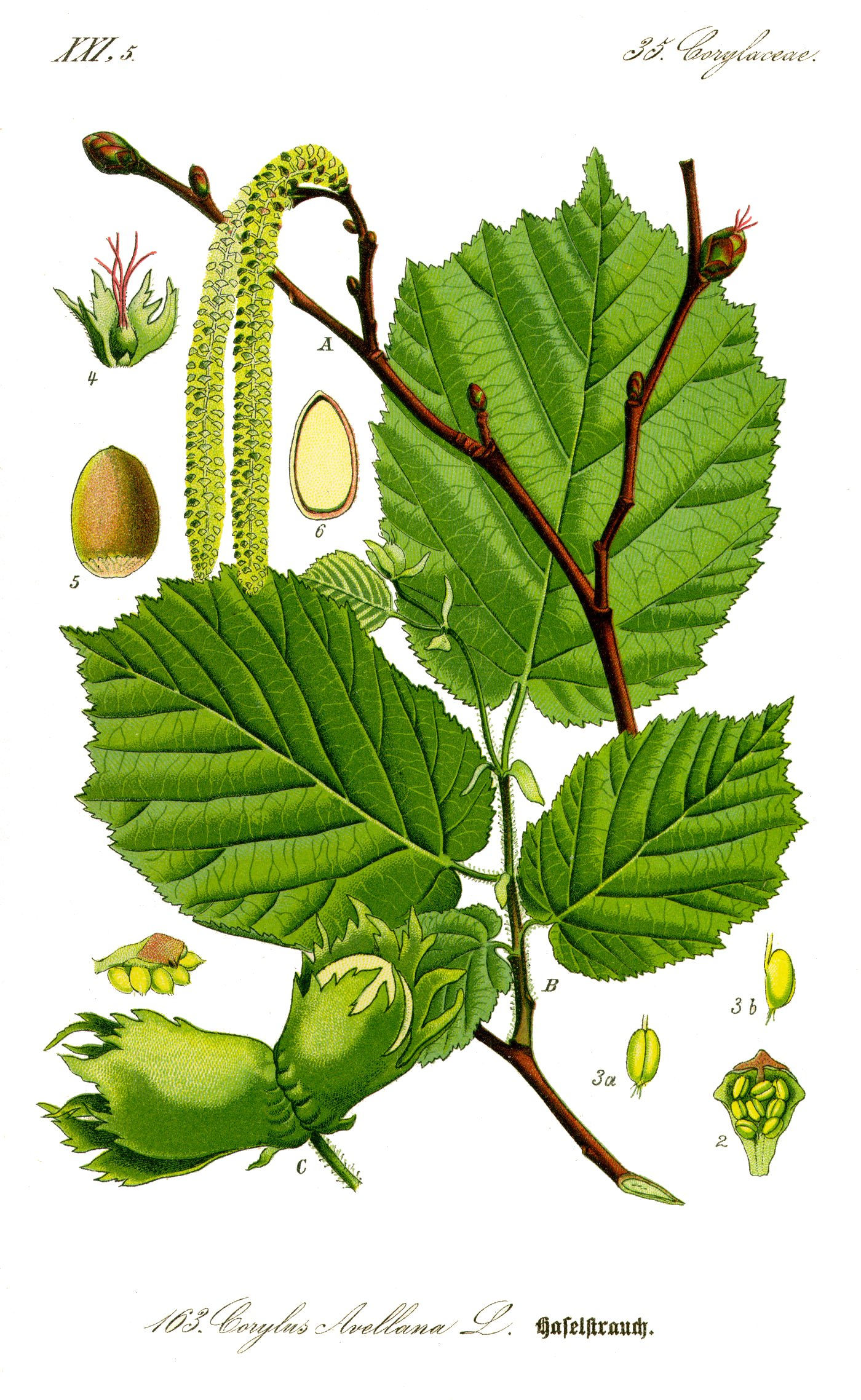 Name Corylus avellana Family Corylaceae